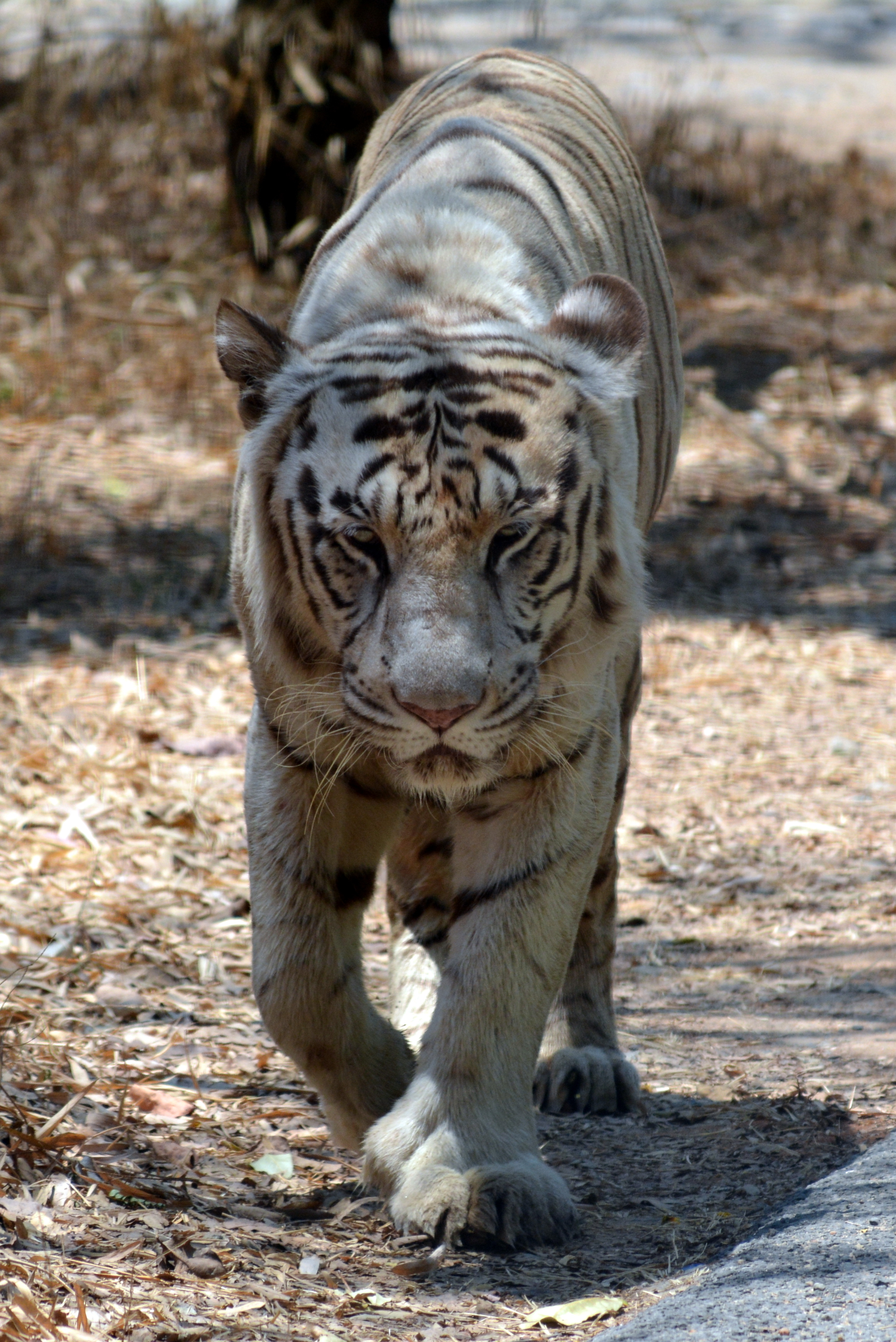 White tiger walking at Bannerghatta National Park, Bangalore